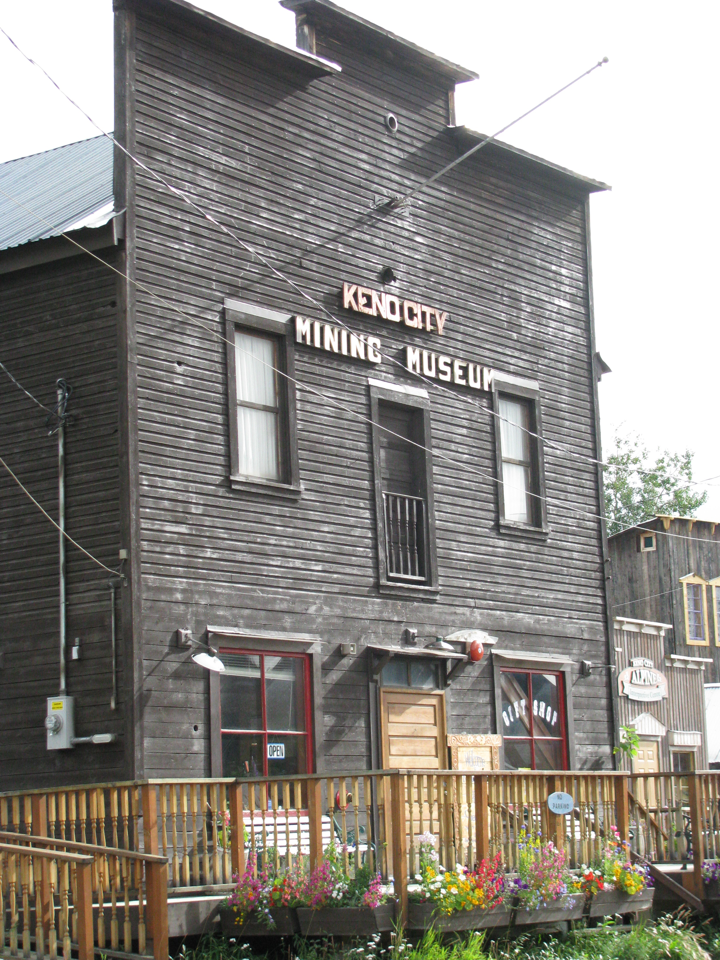 The following is the author's description of the photograph quoted directly from the photograph's Flickr page. "Mining Museum, Keno City, Yukon, Canada. Photographed on 10 August 2009. Joint ©© Arthur D. Chapman and Audrey Bendus. "